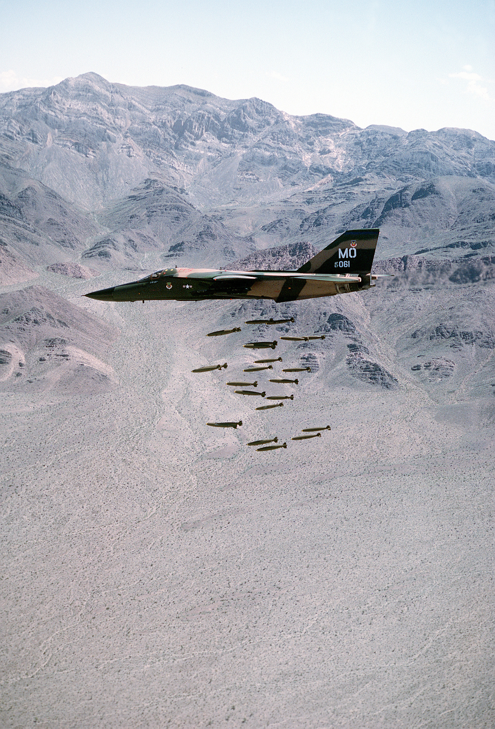 A left side view of an F-111A dropping 24 Mark 82 low-drag bombs in-flight over a range. The aircraft is assigned to the 391st Tactical Fighter Squadron, 366th Tactical Fighter Wing. Location: NELLIS AIR FORCE BASE, NEVADA (NV) UNITED STATES OF AMERICA (USA)